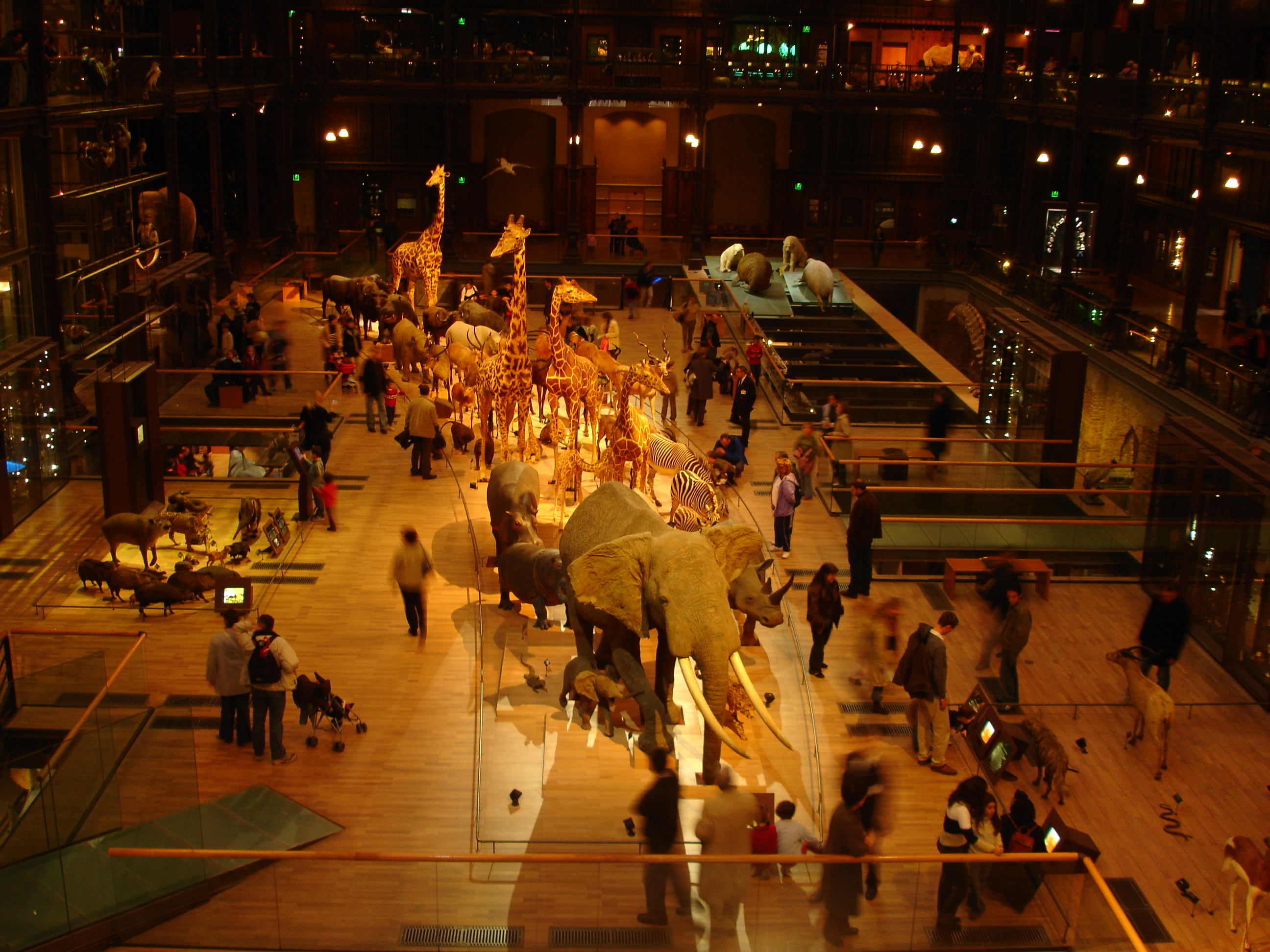 The "African fauna herd" as exhibited in the first level of the Gallery of Evolution, which is a zoology museum building belonging to the French National Museum of Natural History. The Gallery of Evolution's building is located in the Jardin des plantes in Paris.